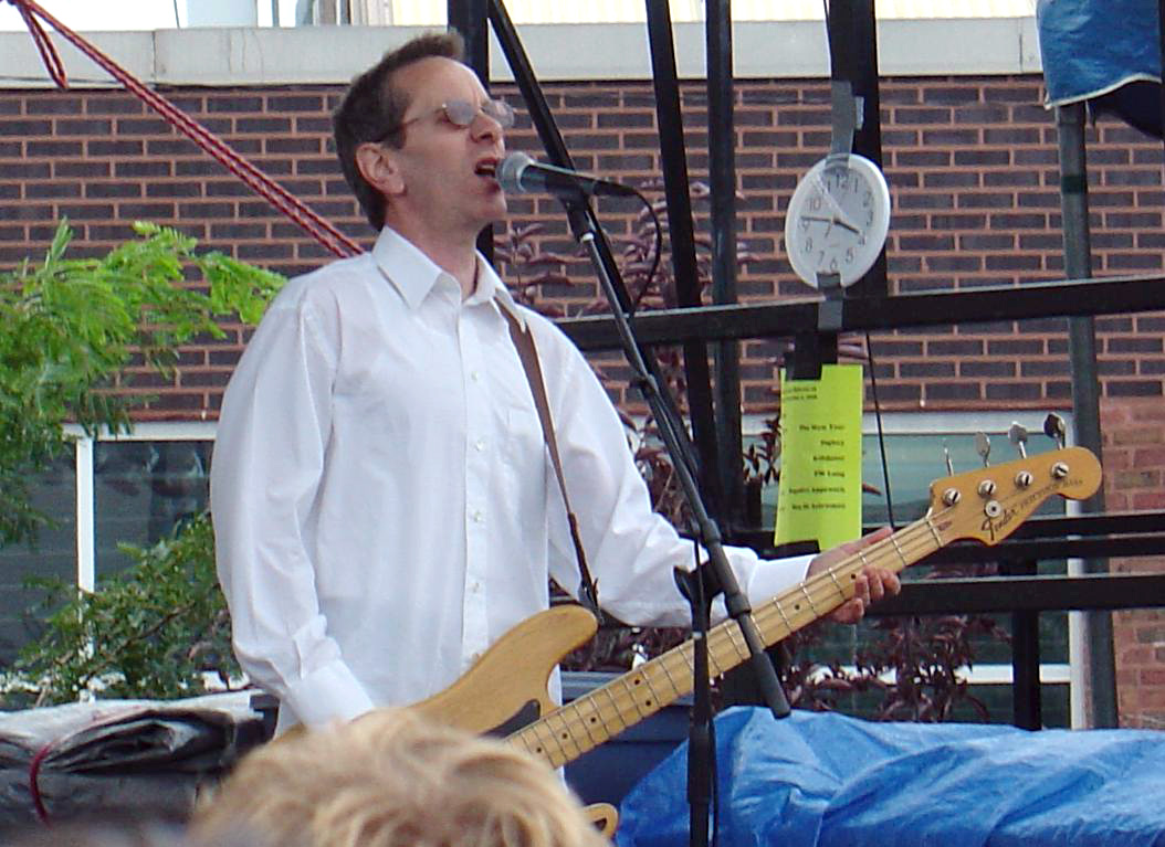 Michael Gerald, bass player and singer for Killdozer, on stage in Chicago.